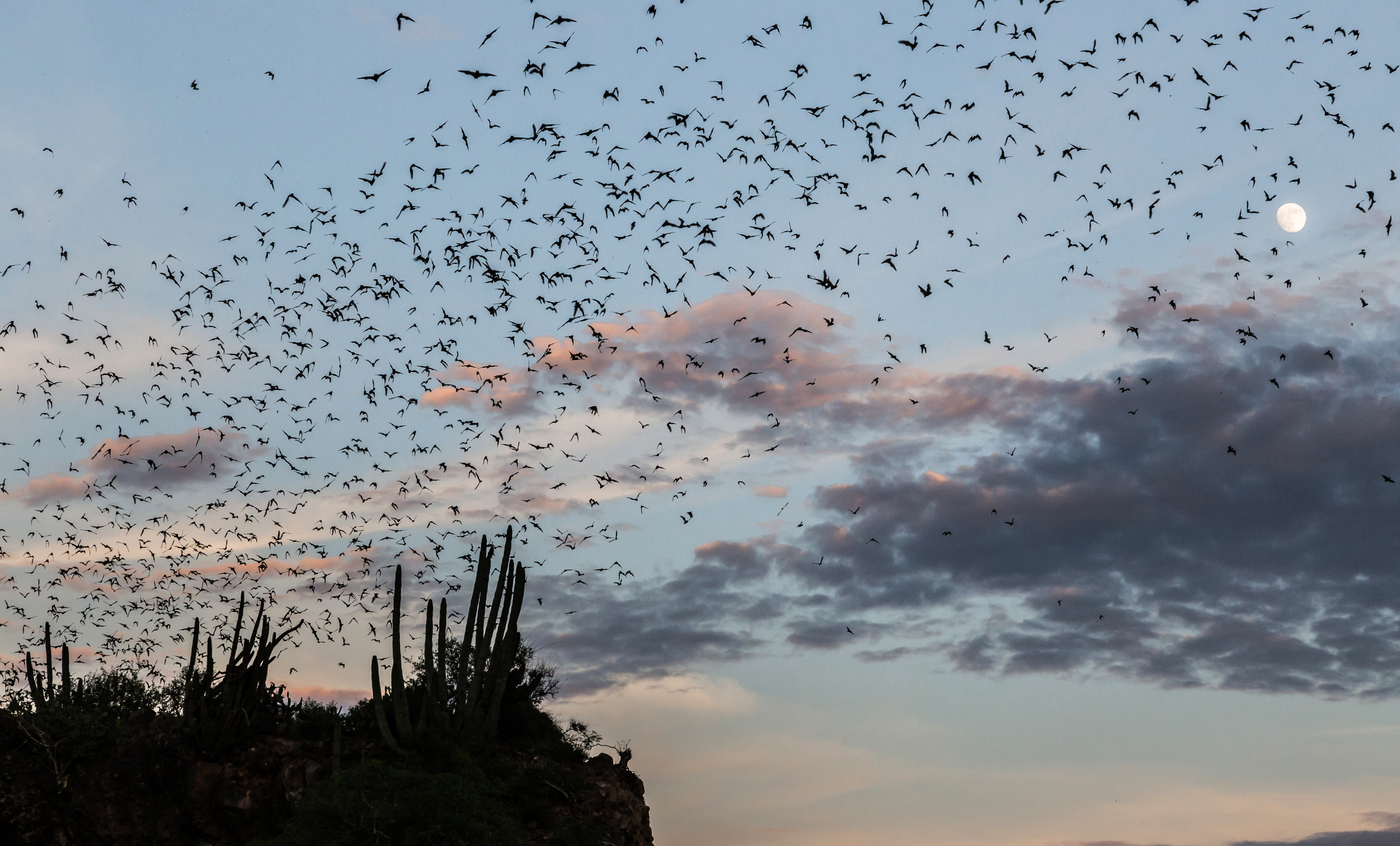 Like bats out of hell, bats coming out of a cave for evening dinner in El Maviri, near Los Mochis, in the state of Sinaloa, Mexico.